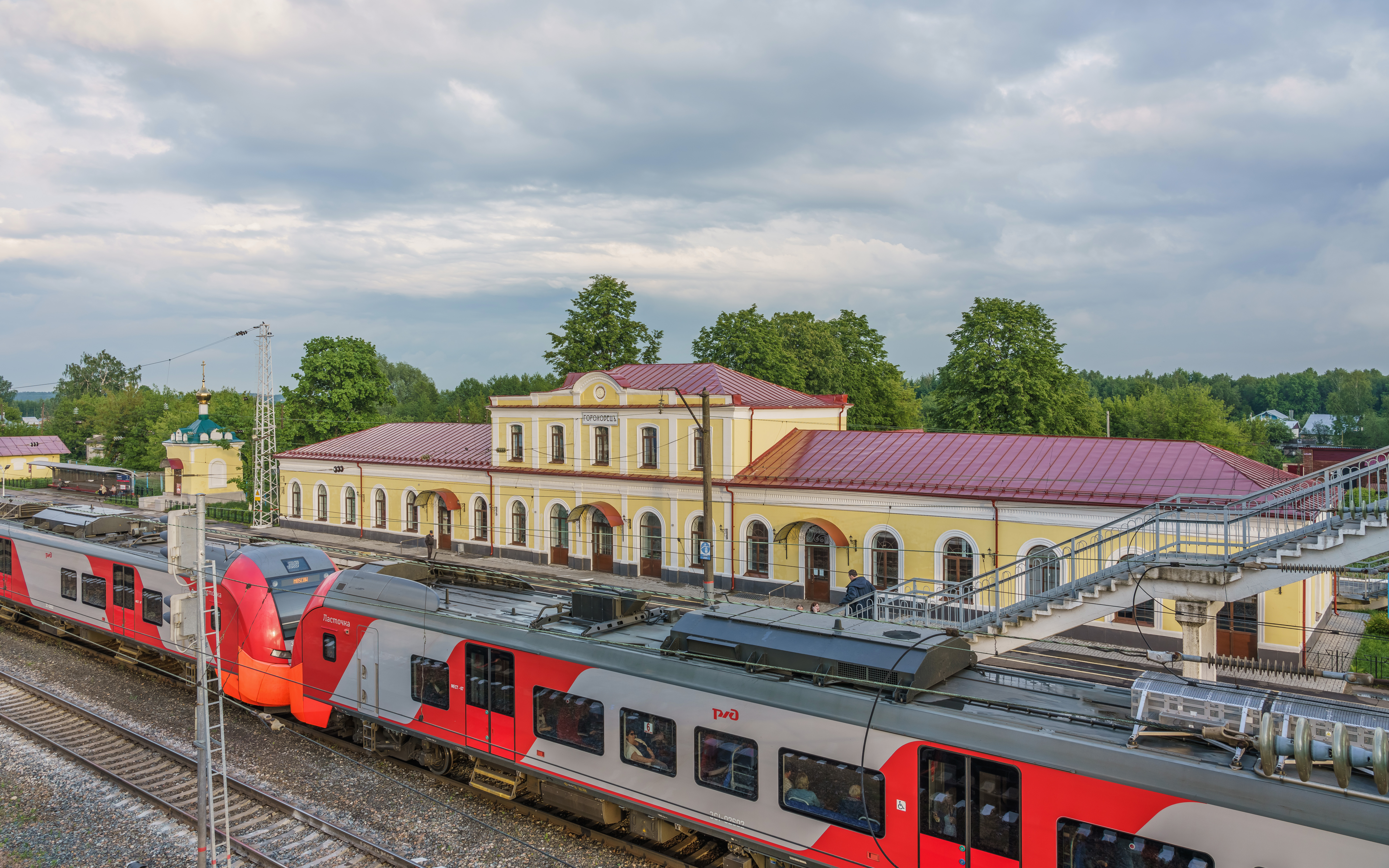 Gorokhovets railway station, Vladimir Oblast, Russia